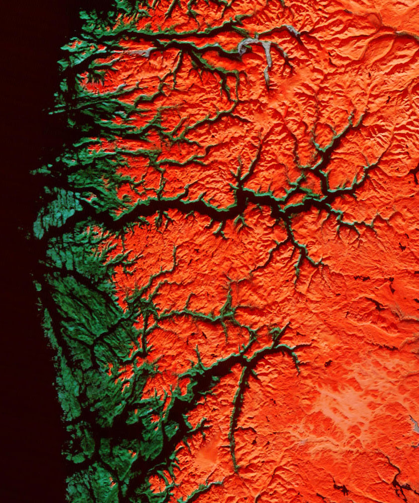 A satellite image with snow shown as red make the Norwegian fjords Sognefjorden and Hardangerfjorden clearly visible.